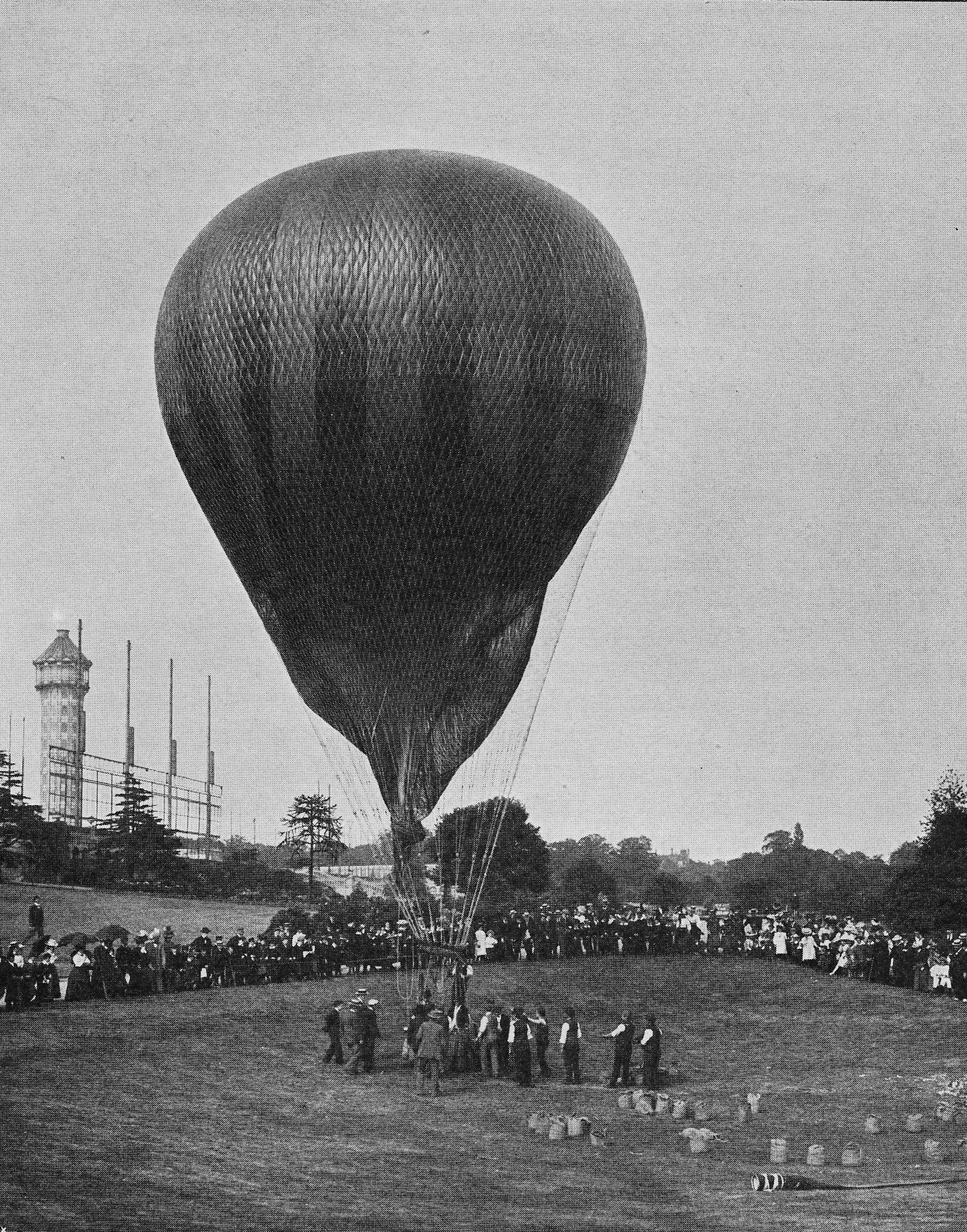 Balloon Excelsior with German meteorologist Arthur Berson (1859-1942) and British Balloonist Stanley Spencer (aeronaut) (1868-1906) in Crystal Palace, London) on September 15th, 1898 before ascending to 8320 M height [1].